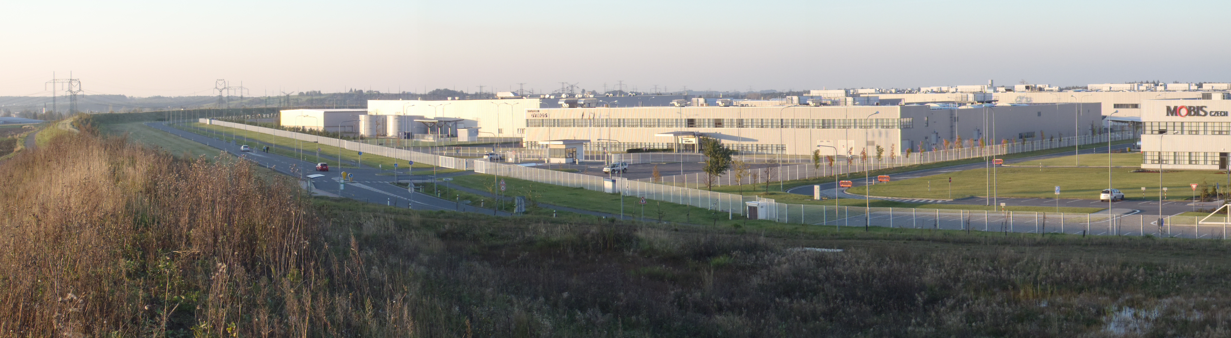 Outlook on the factory of the Hyundai Motor Company in Nosovice from the site of acoustic rampart between the factory and main part of the village. Terrain working and planting on the rampart are not finished.